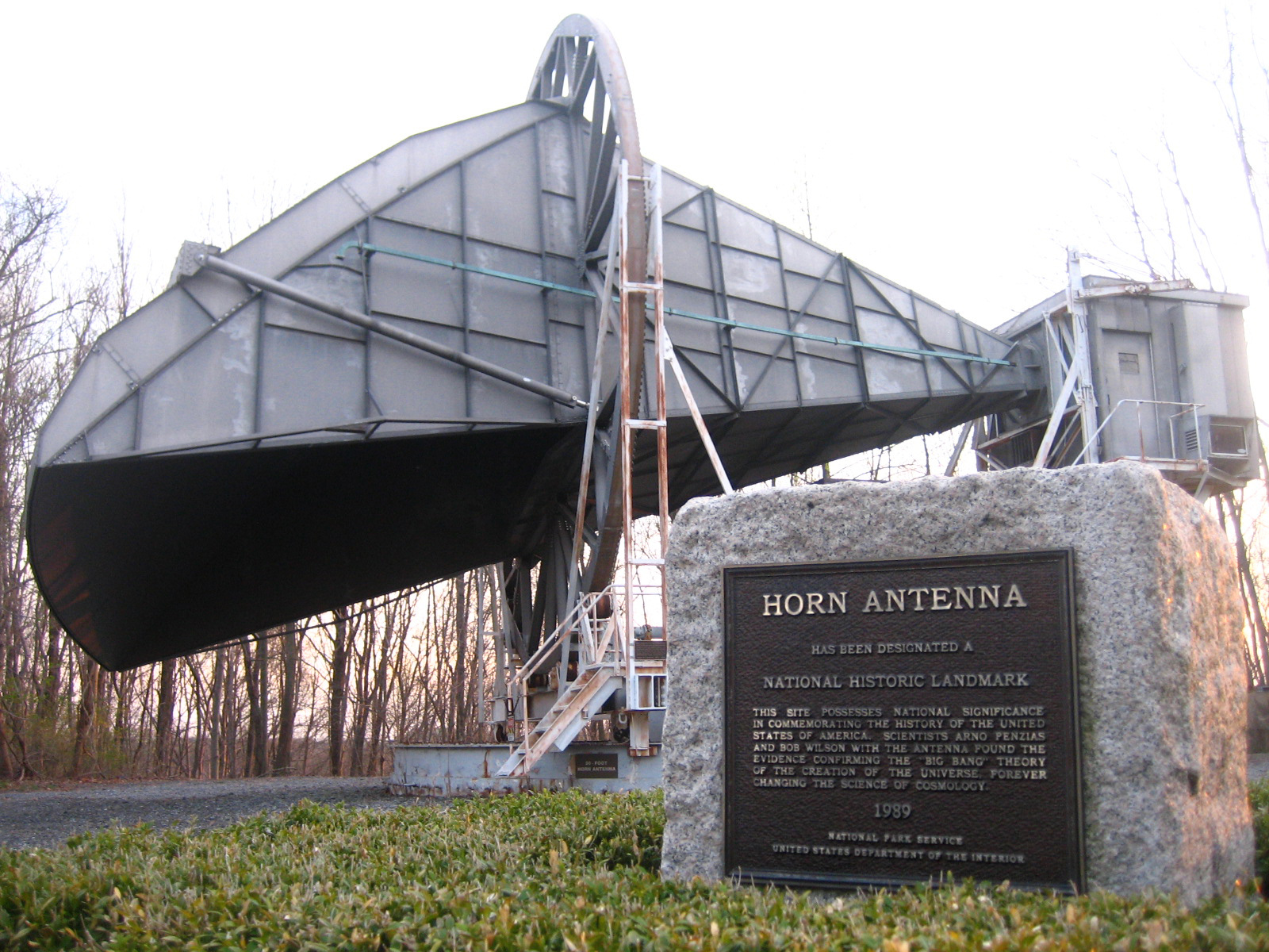 The Holmdel Horn Antenna, located at Bell Telephone Laboratories in Holmdel, New Jersey, USA. In 1965 while using this antenna, American radio astronomers Arno Penzias and Robert Wilson stumbled on the cosmic microwave background radiation that permeates the universe. This was one of the most important discoveries in cosmology in the 20th century, providing confirmation of the Big Bang theory of the creation of the universe. Penzias and Wilson received the 1978 Nobel Prize in Physics for this discovery, and in 1989 the Holmdel horn antenna was designated a National Historic Landmark. This type of antenna is called a Hogg horn antenna, invented by D. C. Hogg at Bell Labs in 1961. It consists of a flaring metal horn, with a reflector mounted in the mouth at a 45° angle. The reflector is a segment of a parabolic reflector, so the antenna is really a parabolic antenna fed off-axis. This type of antenna has several features that make it a good radio telescope: it has very broad bandwidth, its aperture efficiency can be calculated accurately, and the horn shields the antenna so it picks up very little thermal radio noise from the ground. Since it is no longer being used, the antenna has been rotated so its aperture is facing the ground, to keep rainwater out.